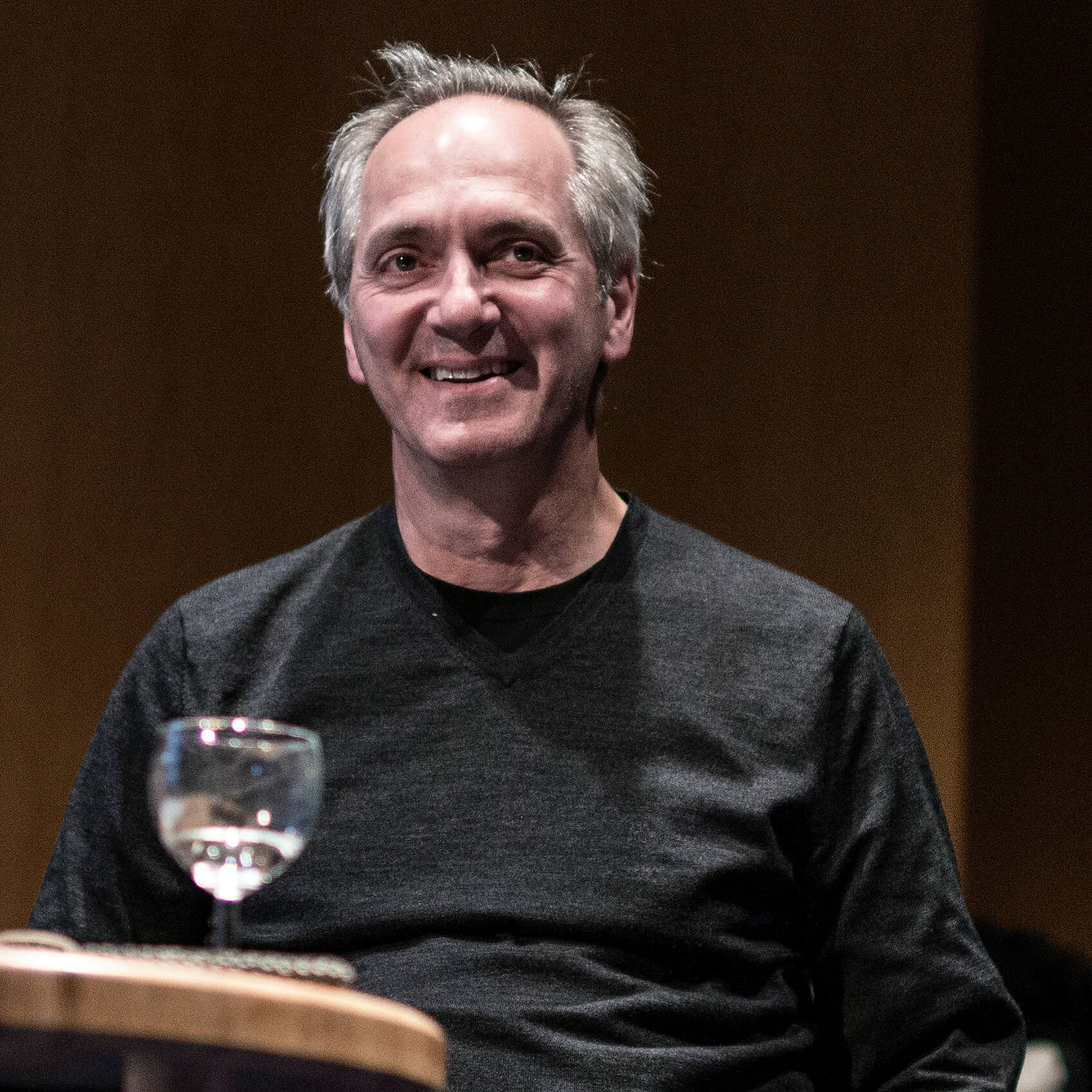 German photographer Thomas Struth, March 2016, Museum Ludwig, Cologne